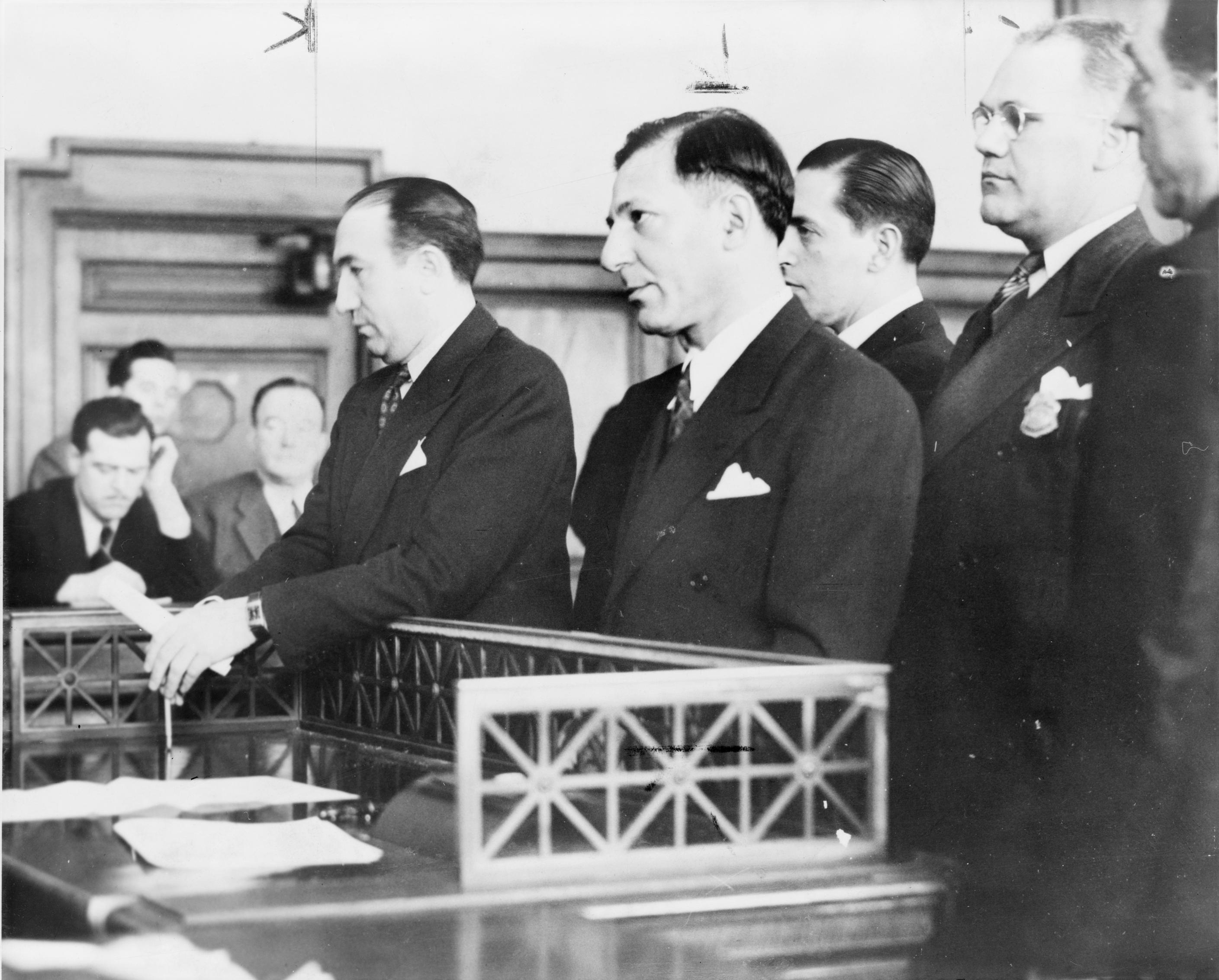 Louis "Lepke" Buchalter, American mobster of the 1930s, standing in court during sentencing.